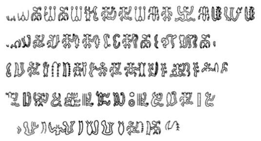 Fischer's tracing of rongorongo tablet N, side b